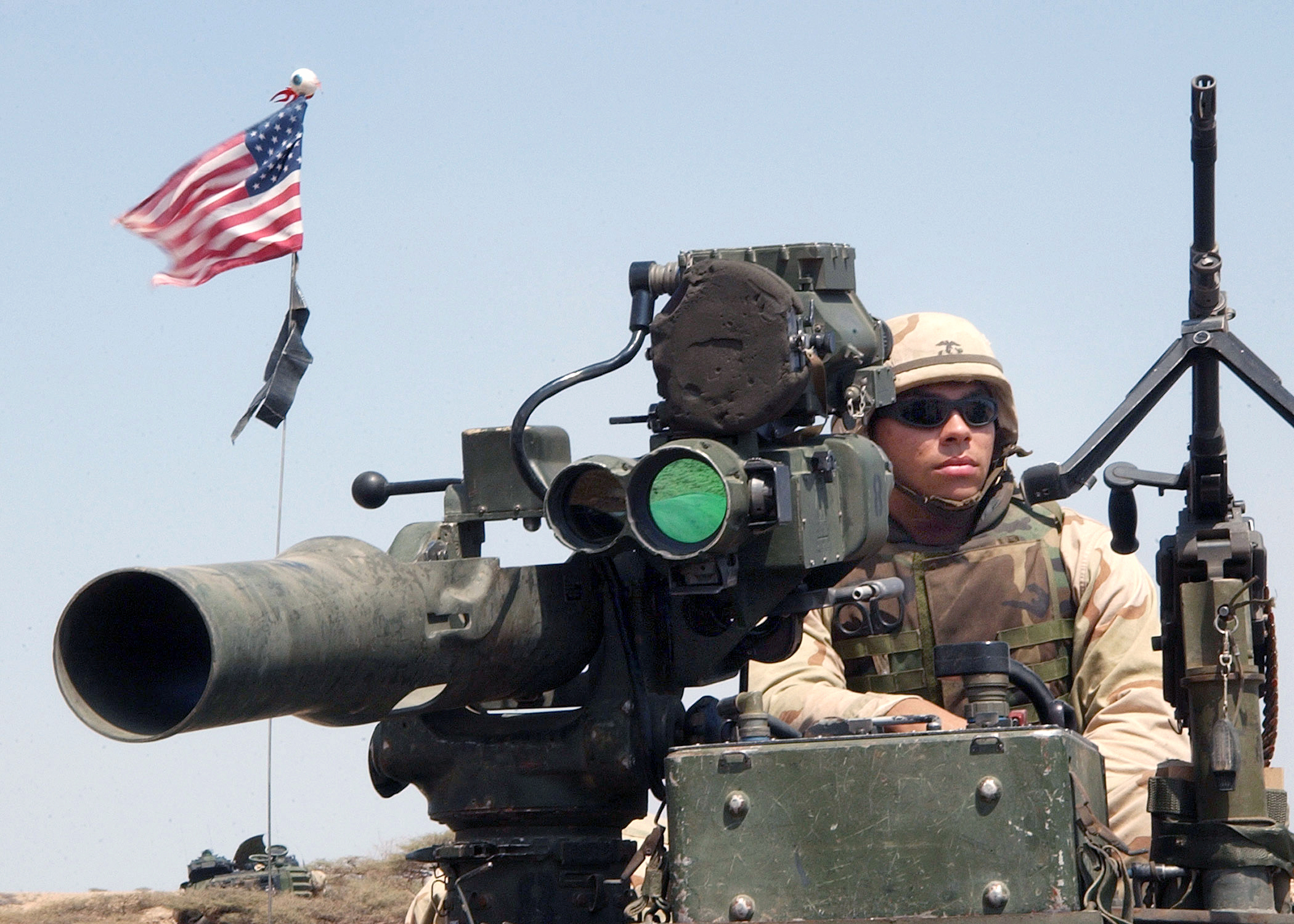 Central Command Area of Operation (Nov. 11, 2002) -- Cpl. Wayne Norman, a U.S. Marine assigned to the 24th Marine Expeditionary Unit (MEU) Special Operations Capable (SOC) stands by as part of a convoy staging area security team. The 24th MEU is on a regularly scheduled deployment conducting missions in support of Operation Enduring Freedom. U.S. Navy photo by Photographer’s Mate 2nd Class Michael Sandberg. (RELEASED)